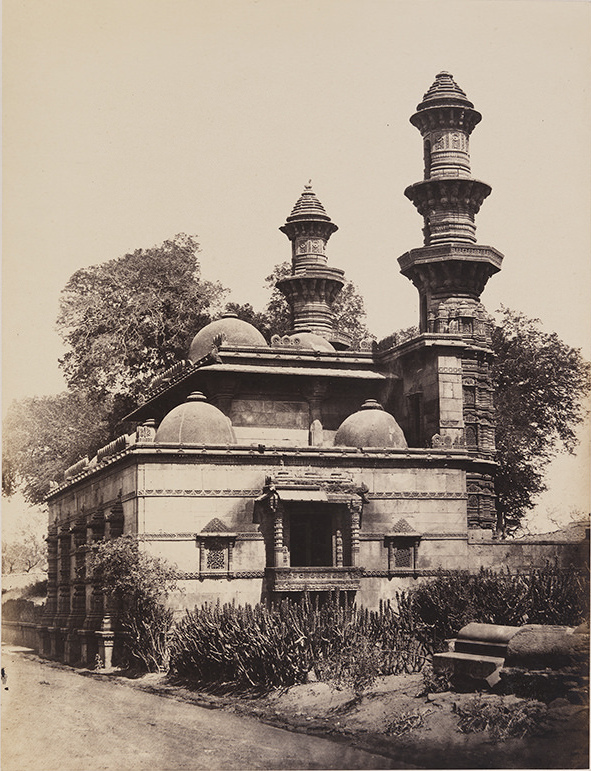 Title: Ahmedabhad. Alternative Title: [Muhafiz Khan's Mosque] Creator: William Johnson Date: ca. 1855-1862 Series: Photographs of Western India. Volume III. Scenery, Public Buildings, &c. Part of: Photographs of Western India Place: Ahmedabad, Gujarat, India Physical Description: 1 photographic print: albumen, part of 1 volume (104 albumen prints); 26 x 20 cm on 42 x 35 cm mount File: vault_ag2002_1407x_3_201_ahmedabhad_opt.jpg Rights: Please cite Southern Methodist University, Central University Libraries, DeGolyer Library when using this image file. A high-quality version of this file may be obtained for a fee by contacting . For more information and to view the image in high resolution, see: View Europe, India, and Asia: Photographs, Manuscripts, and Imprints